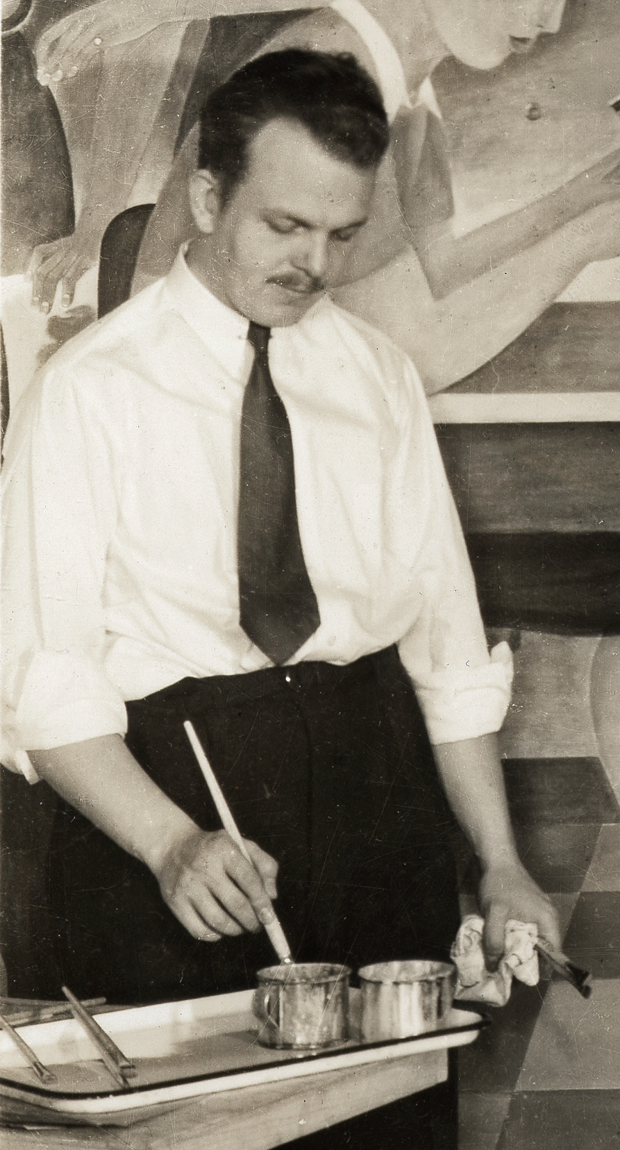 Henrickson dipping brushing into paint, standing by painting.Identification on accompanying label (typewritten): Ralph Henricksen, working on a panel of his mural for the assembly hall of Horace Mann's School, Chicago, Illinois, sketches of which will be shown in the exhibition of work by artist of the WPA Federal Art Project of Illinois, on view in the WPA Federal Art Gallery, 225 West 57th Street, from February 16th though March 12th.